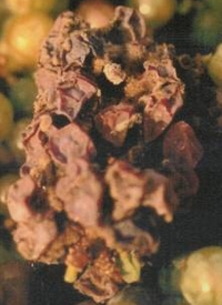 Botrytised Grape Cluster